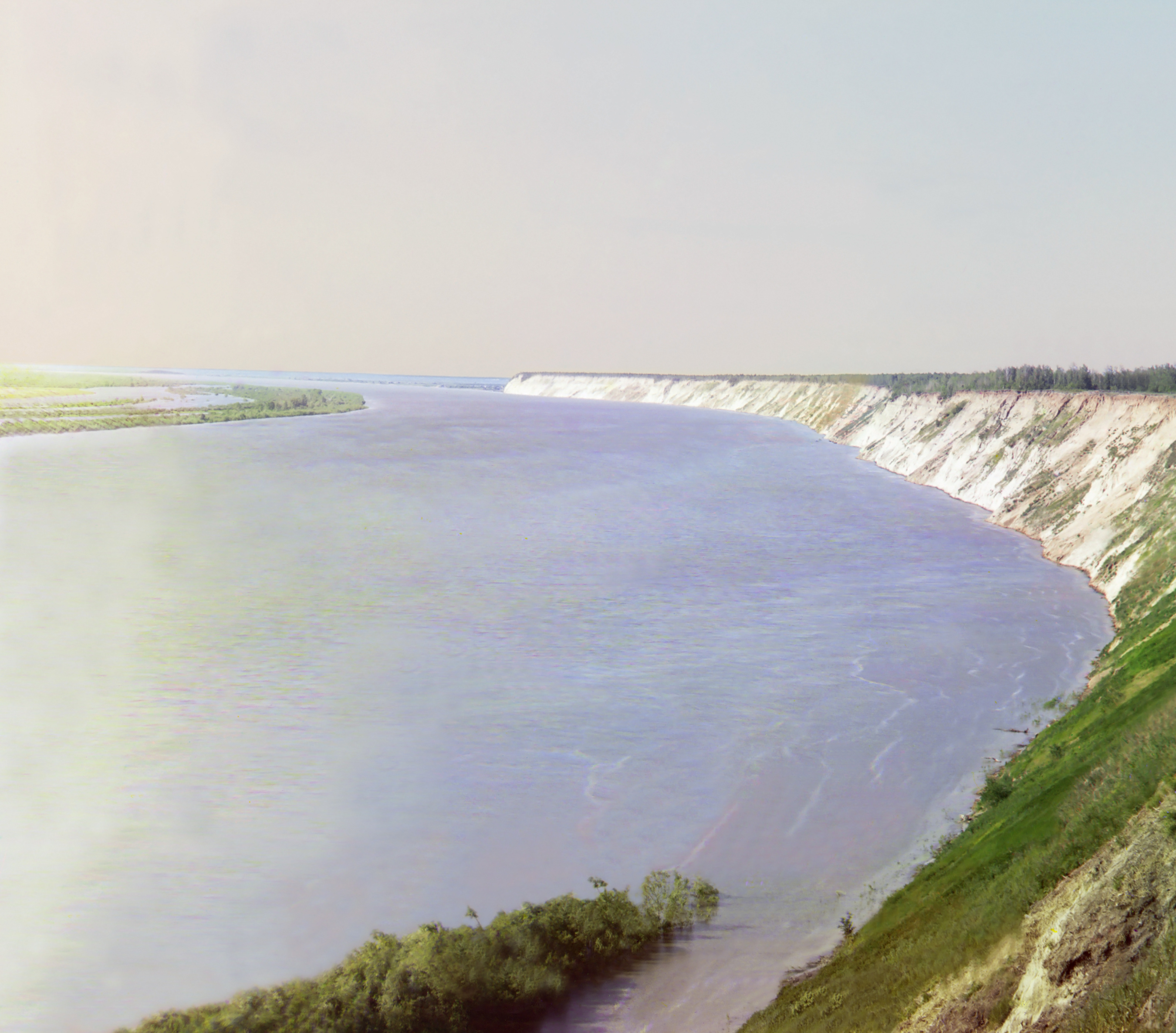 Original Description: Right bank of the Irtysh at the city of Tobolsk from the southeast.